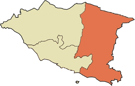 Location of Jasin district, Melaka, MALAYSIA